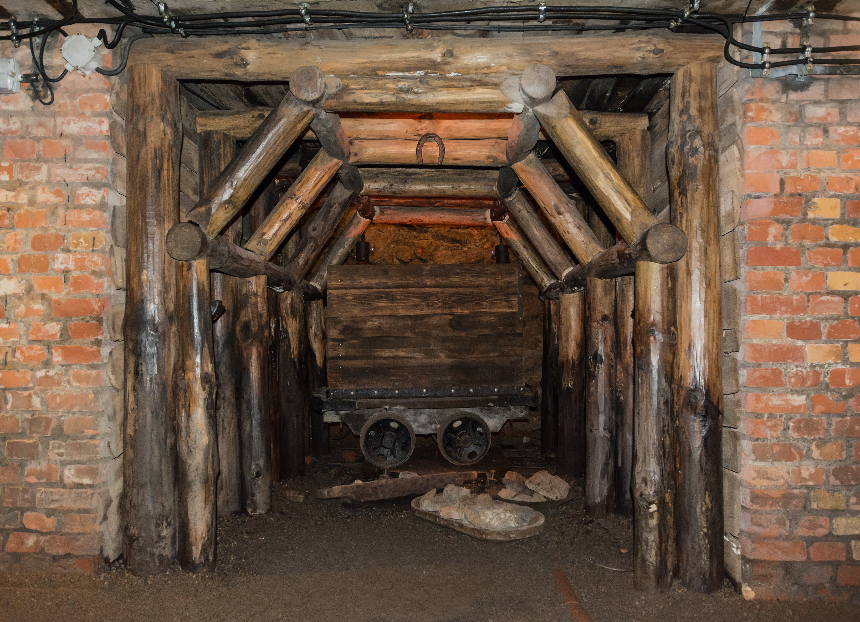 Gold mine in Złoty Stok, tunnel